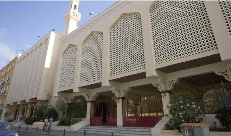 Façade of Abu Bakr Mosque (or Central Mosque) in Madrid (Spain), at 5 Calle de Anastasio Herrero (street) in Tetuán district.